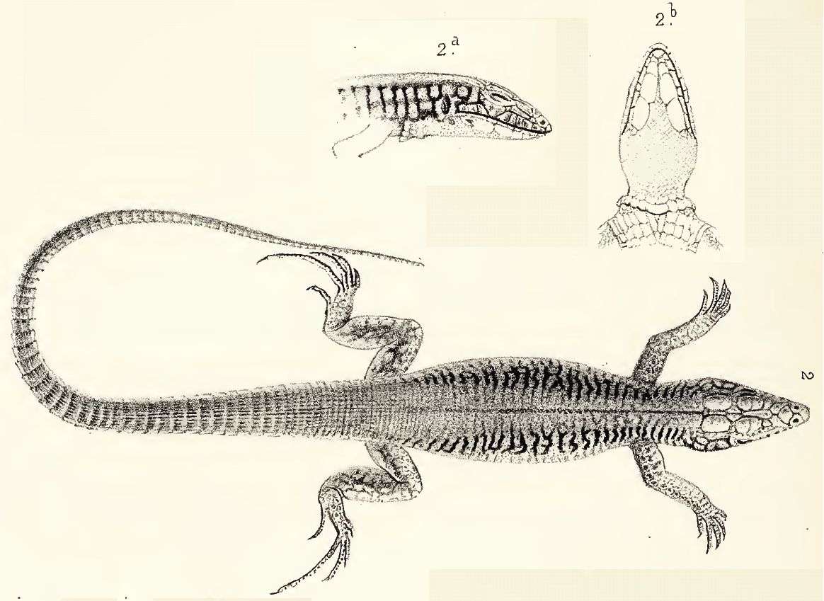 Latastia longicaudata revoili. Holotype from original description